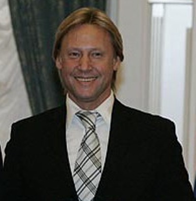 THE KREMLIN, MOSCOW. Ceremony for the presentation of state awards. Actor Dmitry Kharatyan receives the title People's Artist of Russia.